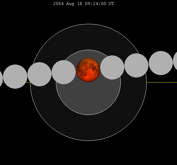 August 2054 lunar eclipse chart of moon's path through the earth's shadow. thumb